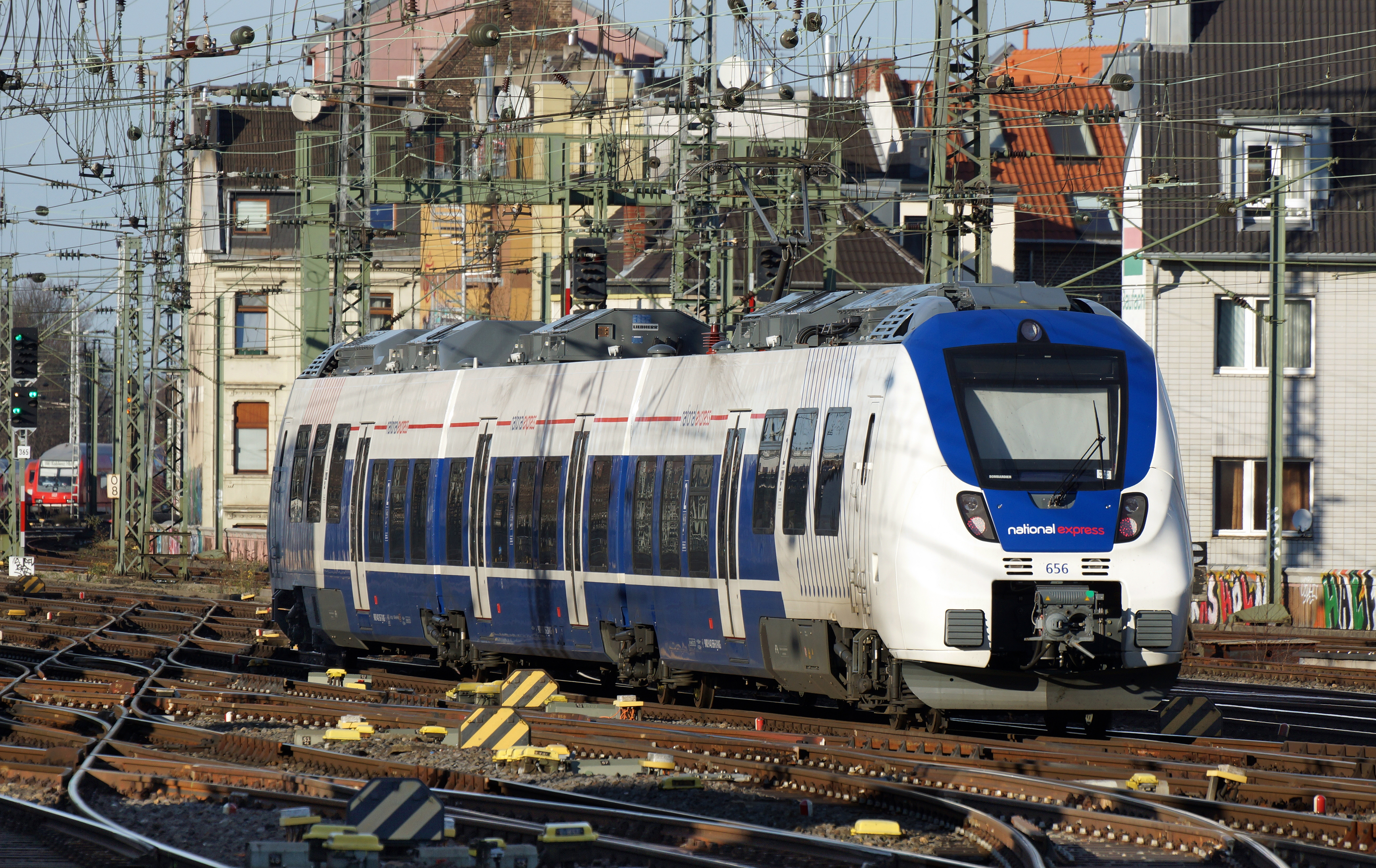 Bombardier Talent 2 of the National Express-Express-Group (NEX 156/656) in the near of Cologne main station.